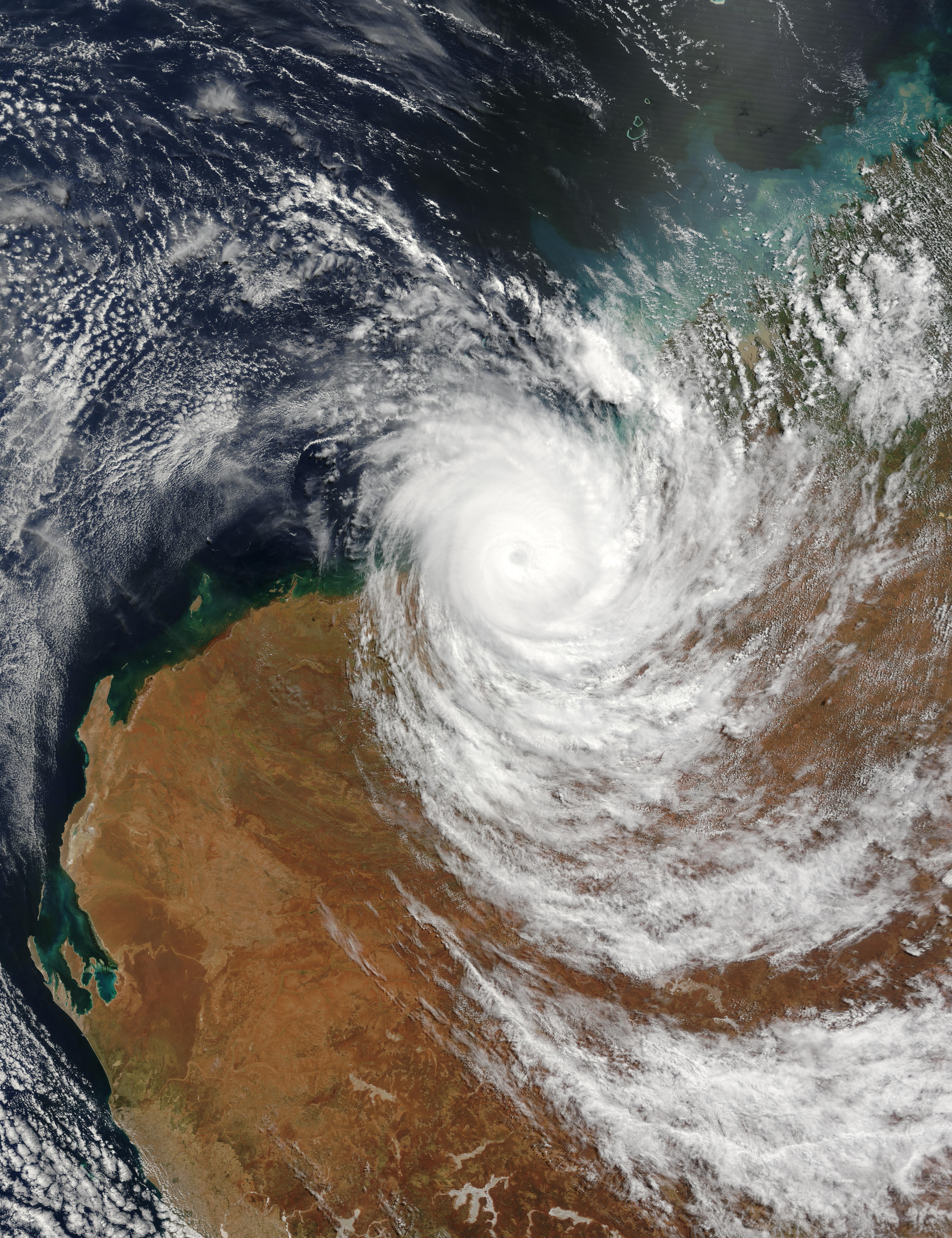 Tropical Cyclone Fay finally came ashore over Western Australia’s Pilbara coast on March 27, 2004. At that time, the storm carried winds that gusted up to 200 kilometers per hour (124 miles per hour). Fortunately, the storm made landfall in a sparsely populated region, and relatively little damage has been reported. The Moderate Resolution Imaging Spectroradiometer (MODIS) on the Terra satellite captured this image of the storm over the Western Australian coast on March 27, 2004.